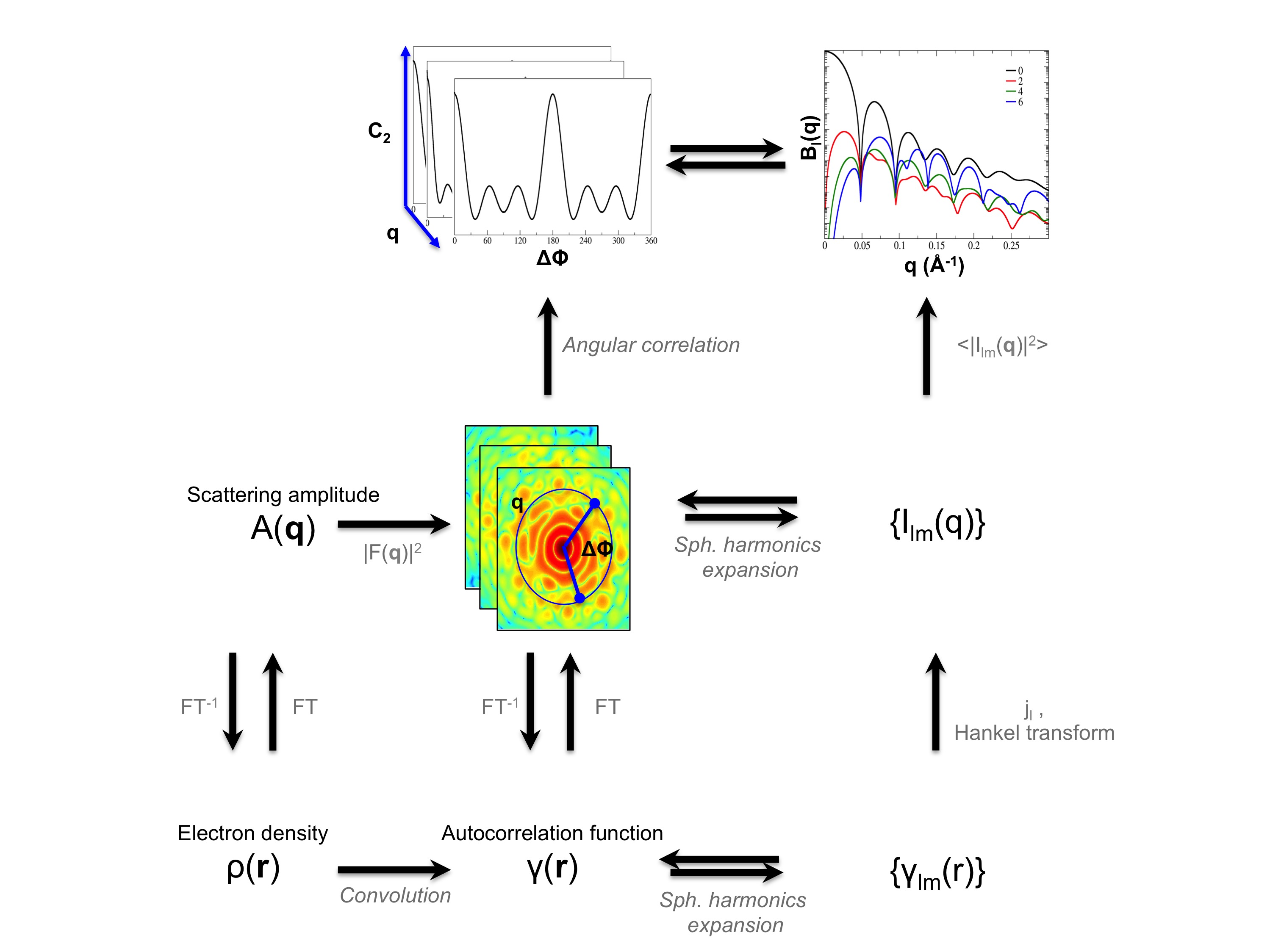 A schema of mathematical relations in Fluctuation X-ray Scattering illustrating the relation between the electron density, scattering amplitude, diffracted intensities and angular correlation data. Derived from Malmerberg, E., Kerfeld, C. A. and Zwart, P. H. (2015). IUCrJ, 2, 309-316.